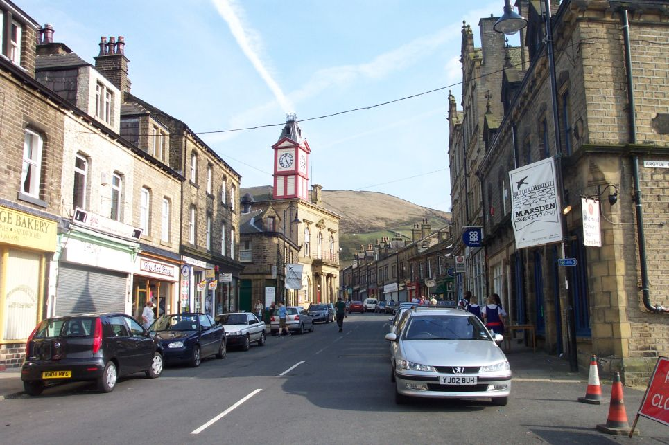 Peel Street, the main street of Marsden, West Yorkshire, with Marsden Mechanics Institute. For more information see the Wikipedia article Marsden, West Yorkshire.